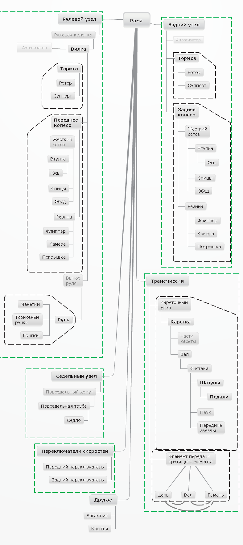 Parts of the bicycle in Russian